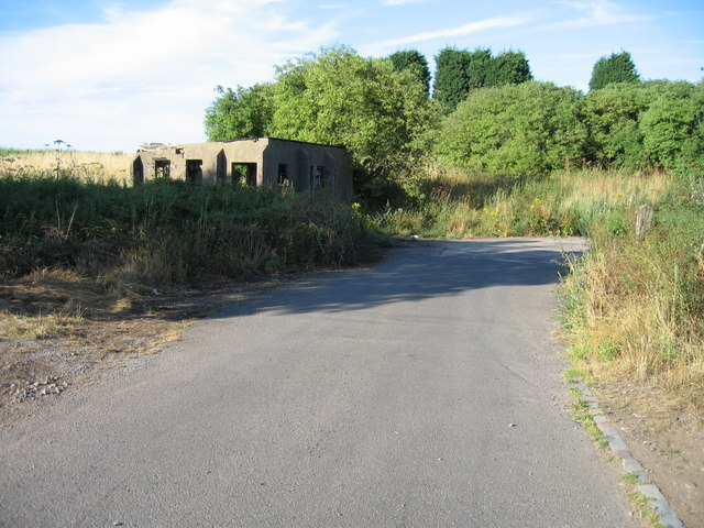 Entrance to former RAF Abbots Bromley, Staffordshire. The entrance is just off the B5014, Abbots Bromley to Uttoxeter road. The now derelict, former guardroom that stands at the entrance, is about all that remains of RAF Abbots Bromley. Few other traces of its wartime history can be found. The airfield was built during the Second World War as a Relief Landing Ground for the RAF's training airfield at Burnaston, near Derby (now the site of the Toyota factory). The landing ground was on the flat land in the centre of this grid square and it quickly reverted back to farmland shortly after the end of the War. Farm buildings can be found just to the rear of the trees in the background of the image.